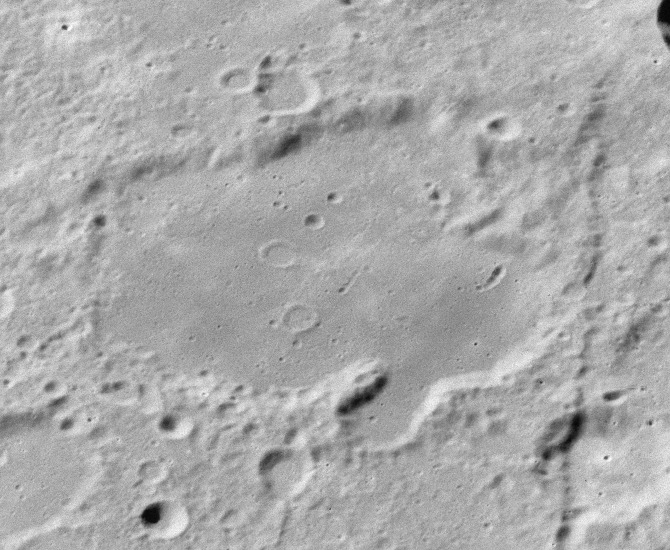 Oblique view of Artamonov, on the far side of the moon. North is in upper right.